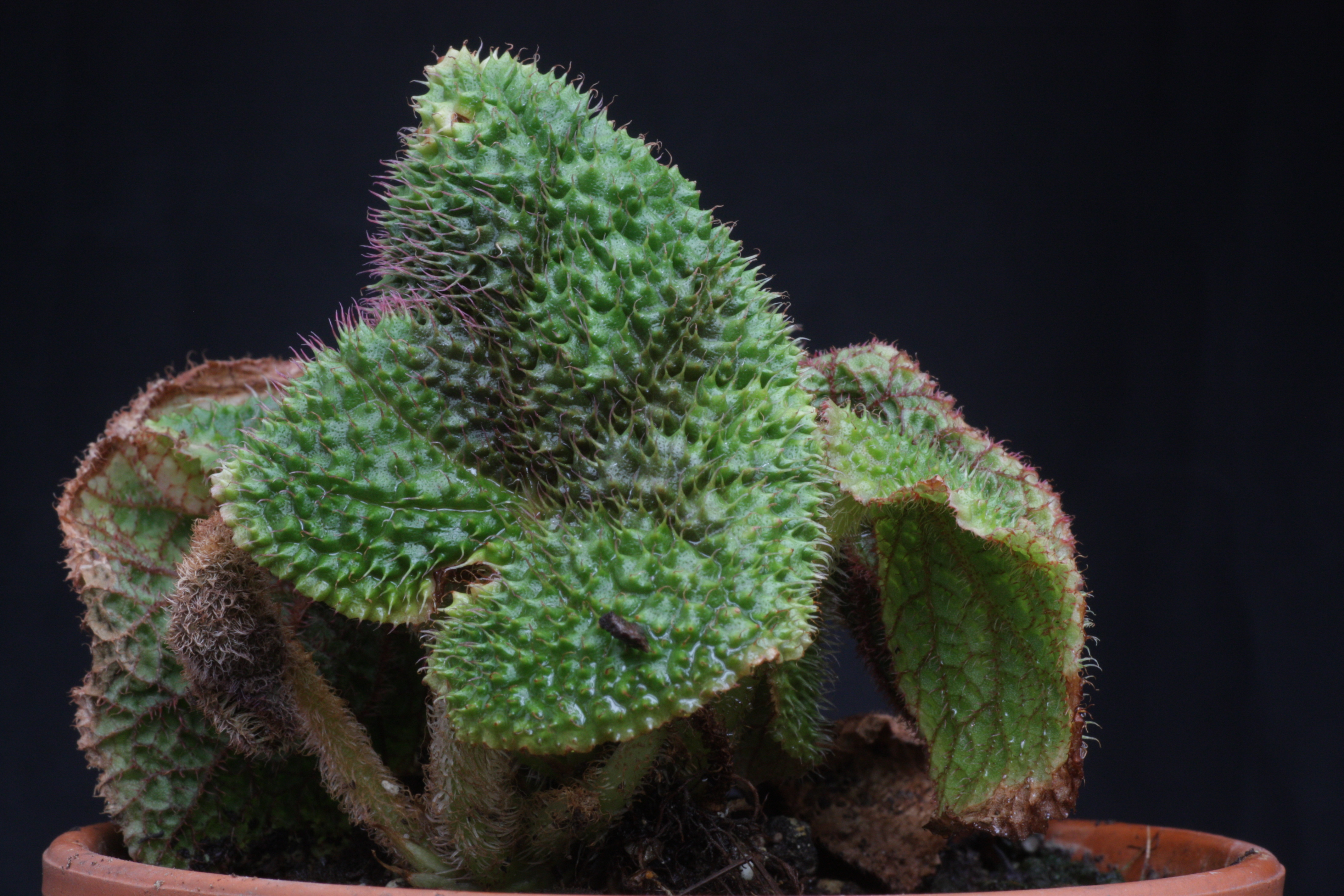 Begonia lacunosa Family : Begoniaceae Accession :2000010260 National Botanical Garden of Belgium Meise Botanic Garden Native nameNationale Plantentuin van België / Jardin Botanique National de BelgiqueLocationDomein van Bouchout / Domaine de BouchoutNieuwelaan 381860 MeiseBelgiumCoordinates50° 55′ 42.28″ N, 4° 19′ 36.78″ E Established1826: established, 1870: became publicly owned,Web page control : Q3052500 VIAF: 159423716 ISNI: 0000 0001 2195 7598 LCCN: n50078011 NLA: 35880480 SELIBR: 120680 WorldCat institution QS:P195,Q3052500 Created under the volunteer photographer program at the National Botanical Garden of Belgium.